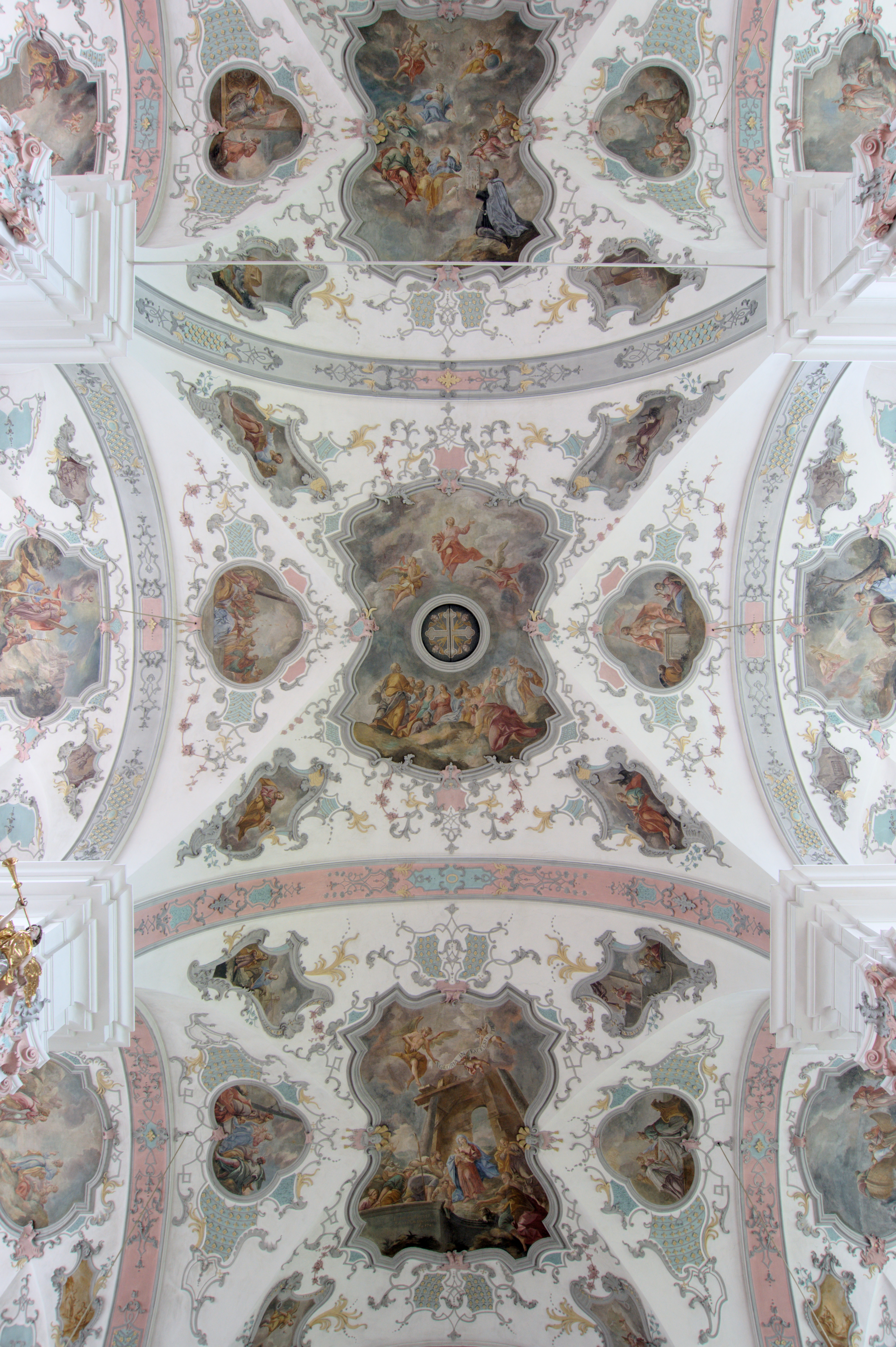 Ceiling paintings from 1741 by Josef Anton Hafner in the parish church of St. Peter and Paul, Sarnen